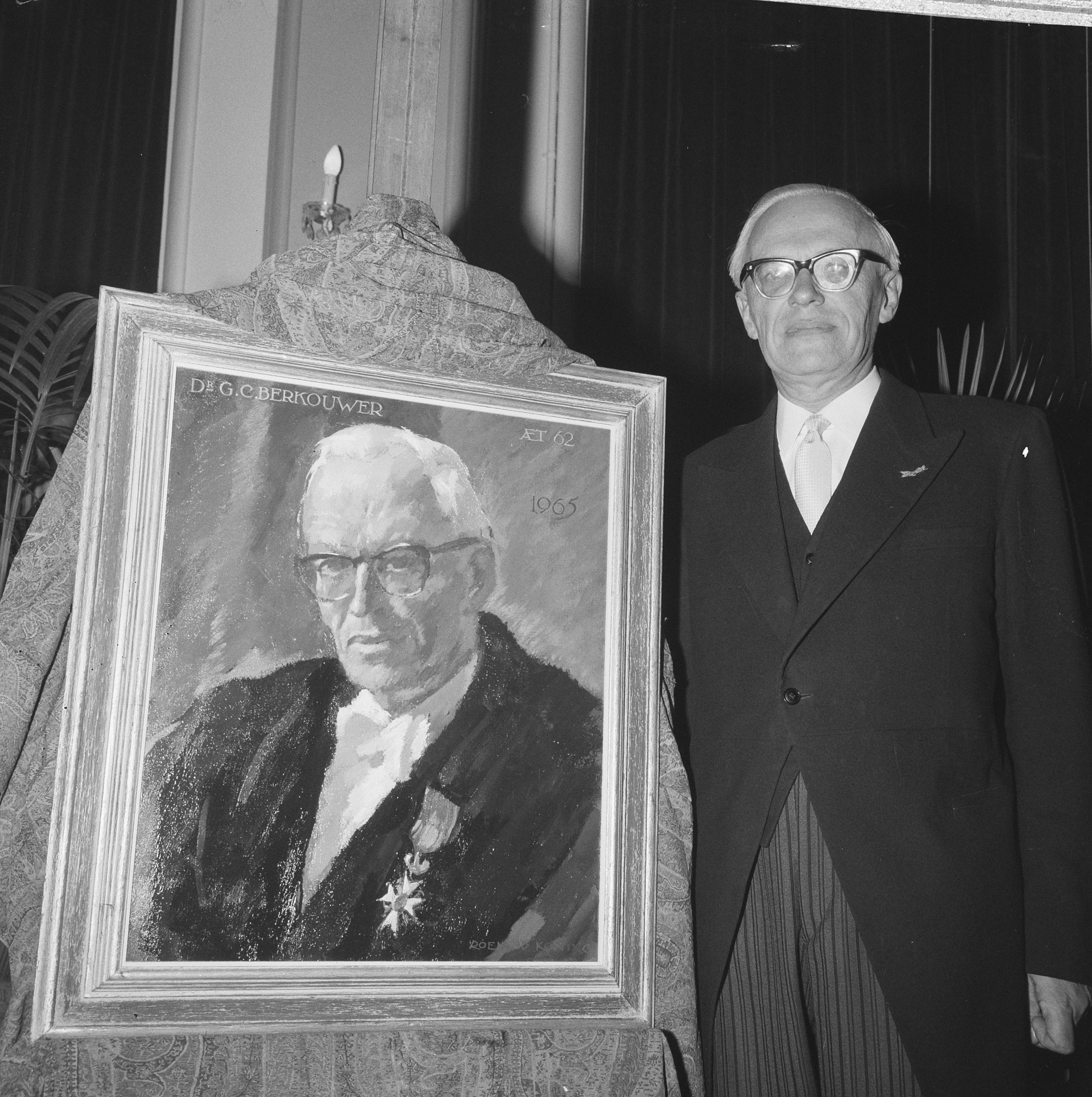 Gerrit Cornelis Berkouwer alongside his portrait (by Roeland Koning) (Amsterdam, 11 Oct. 1965)